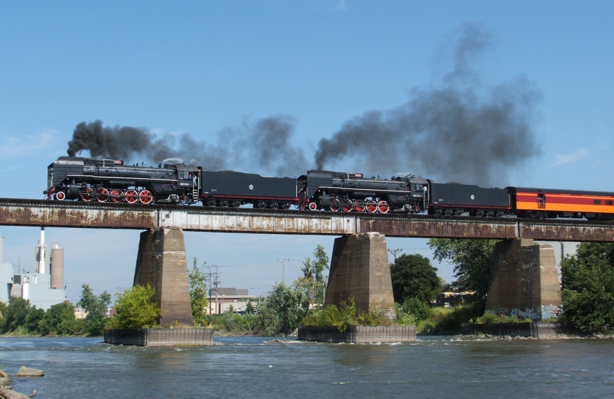 A pair of China Railways QJ locomotives pull an excursion train across the Iowa River bridge on the Iowa Interstate Railroad (formerly the Chicago, Rock Island and Pacific Railroad) in Iowa City, Iowa.